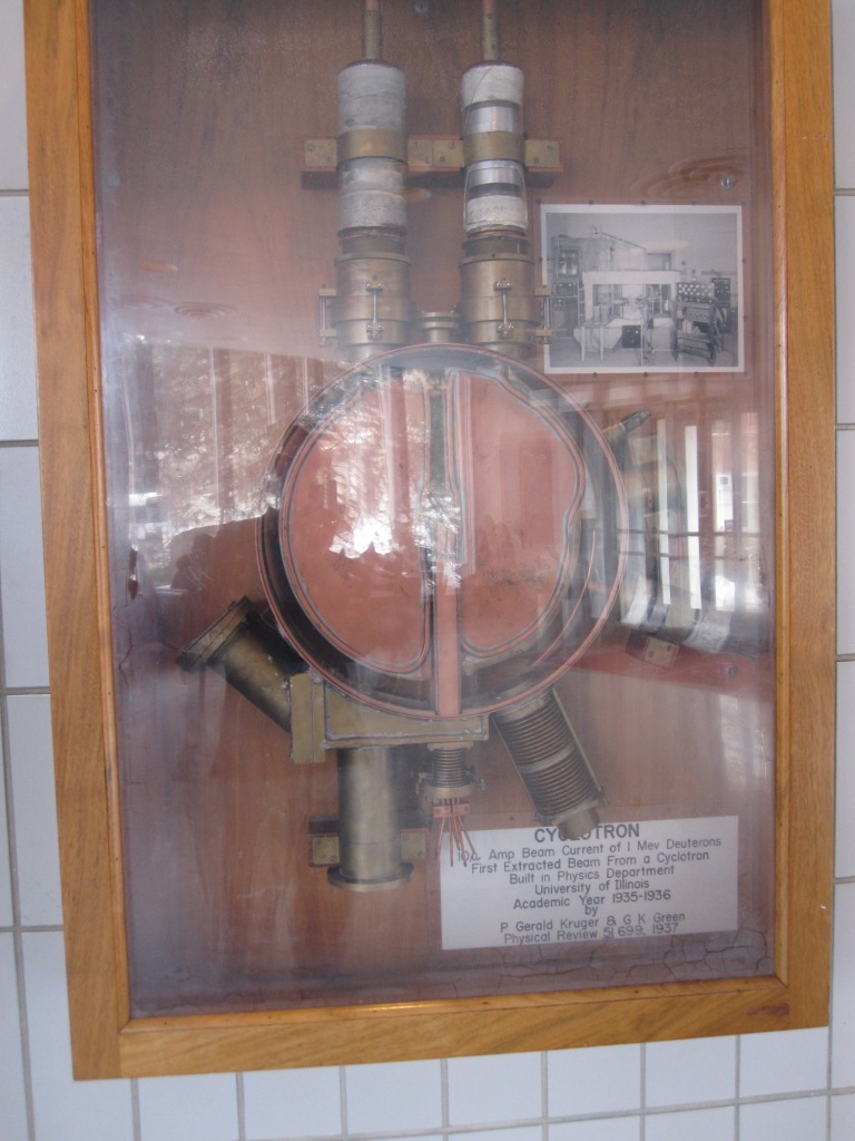 Cyclotron at UIUC.